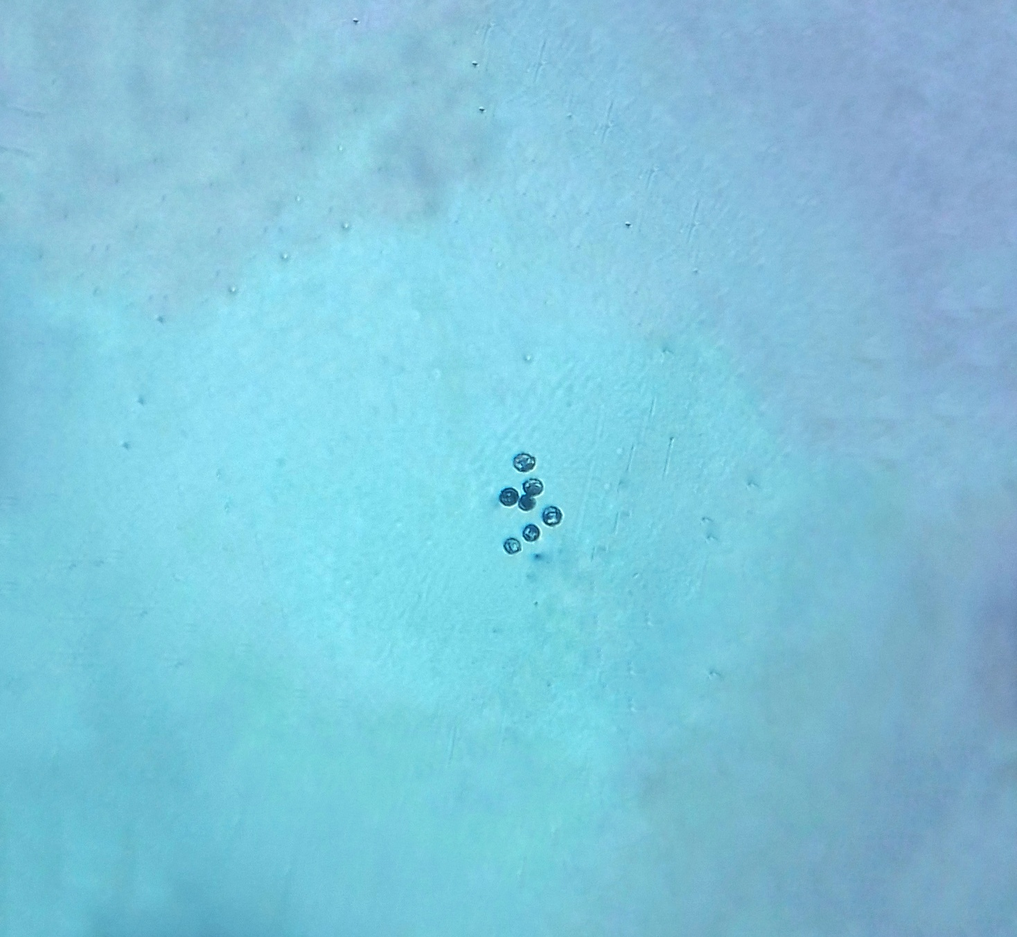 The pollen grains of Parthenium hysterophorus. I found this plant in my garden. I took some pollen grains on a glass slide and observed them under a foldscope ( 140X).